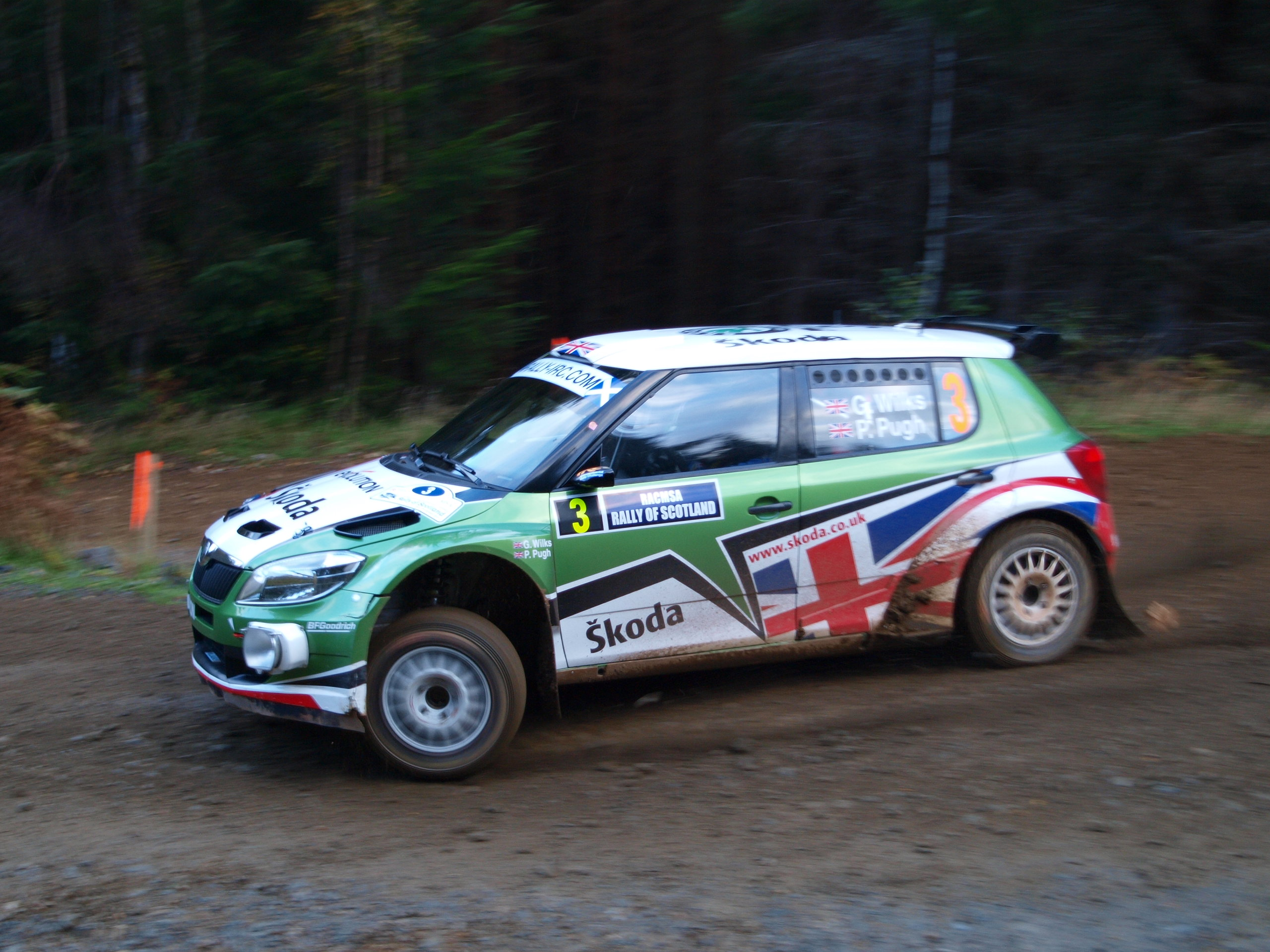 Guy Wilks - SS4 Drummond Hill